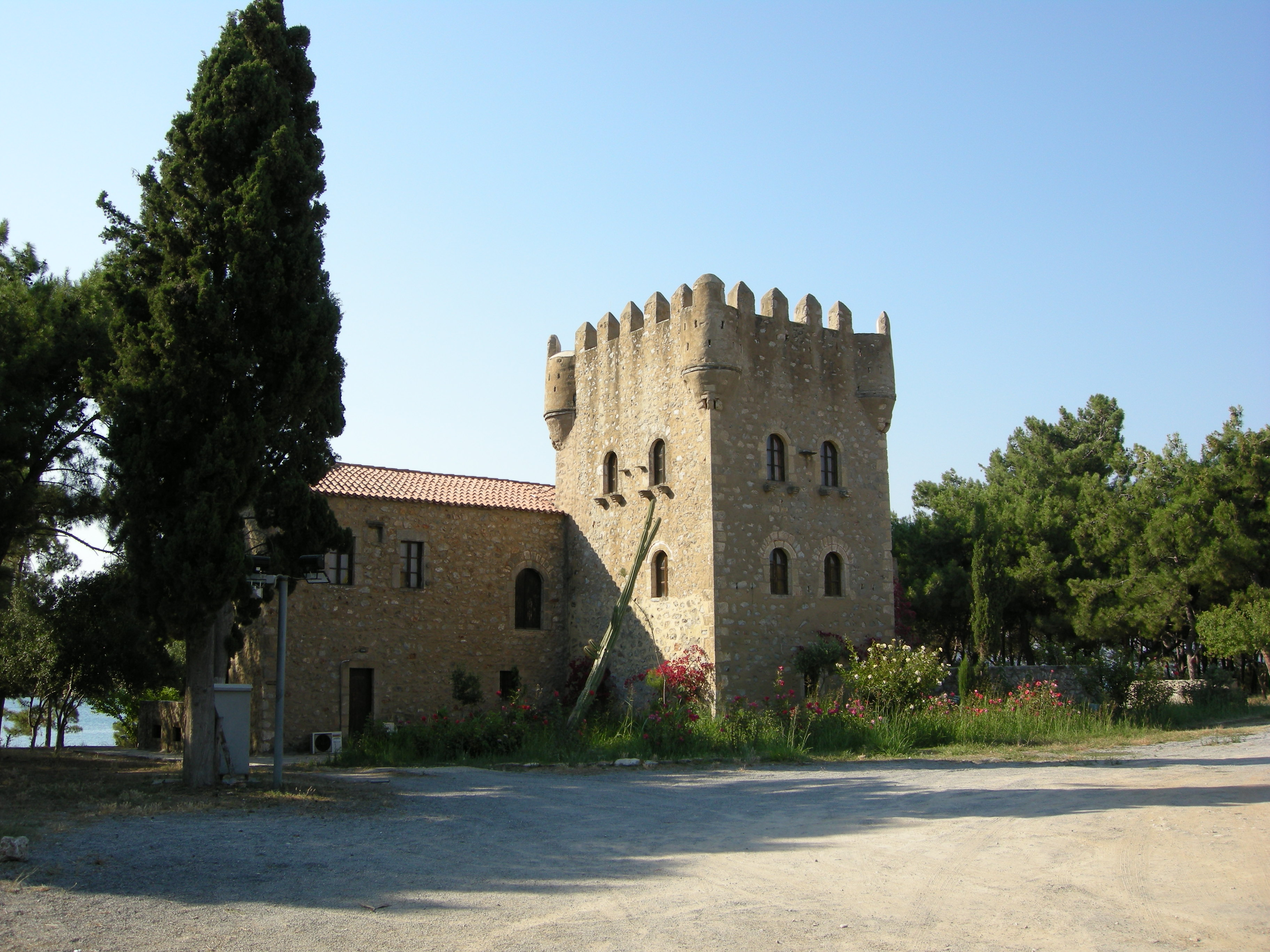 Gythios, island